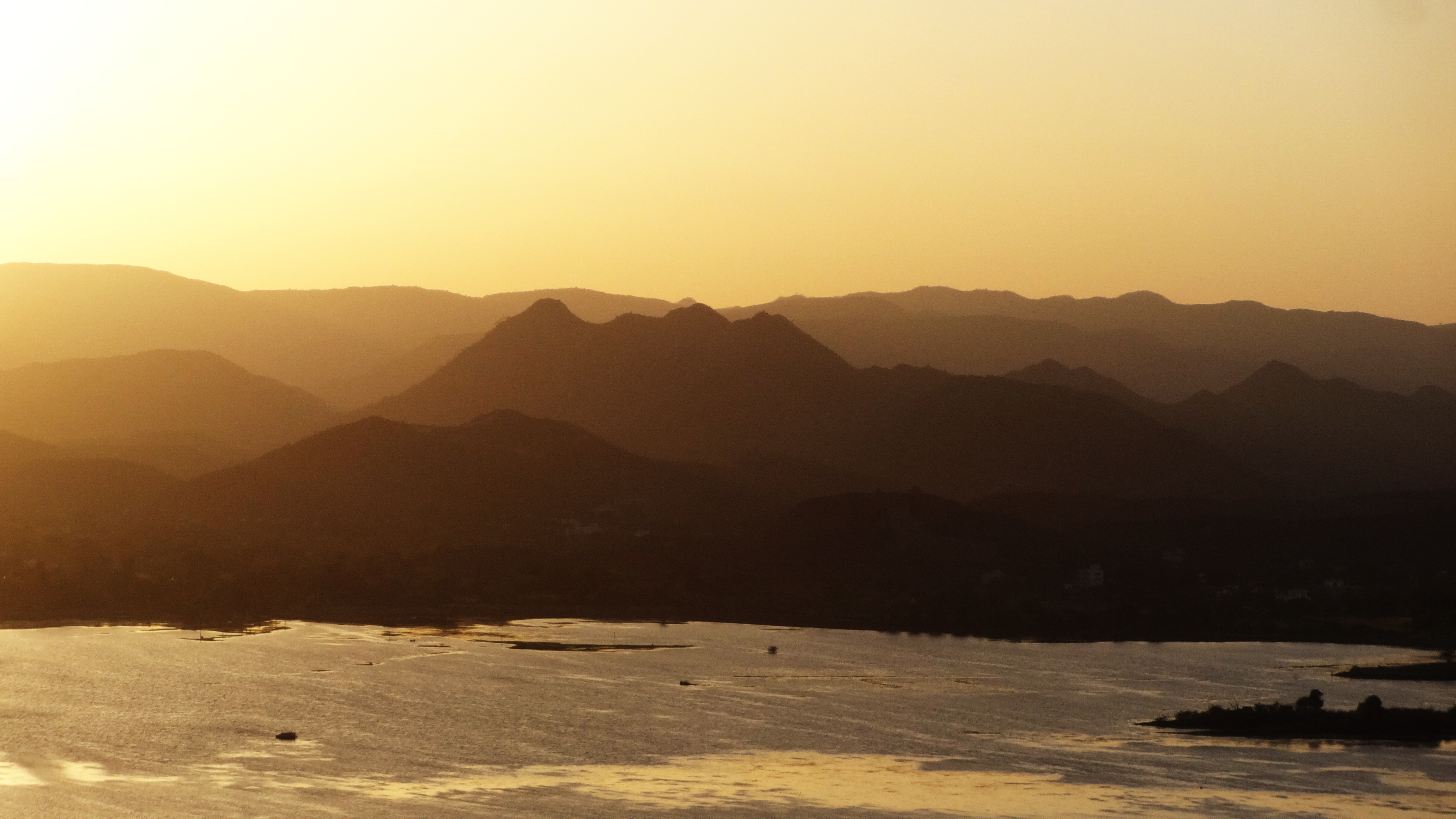 Sunset from Karni mata temple, Udaipur. Lake Pichola in foreground